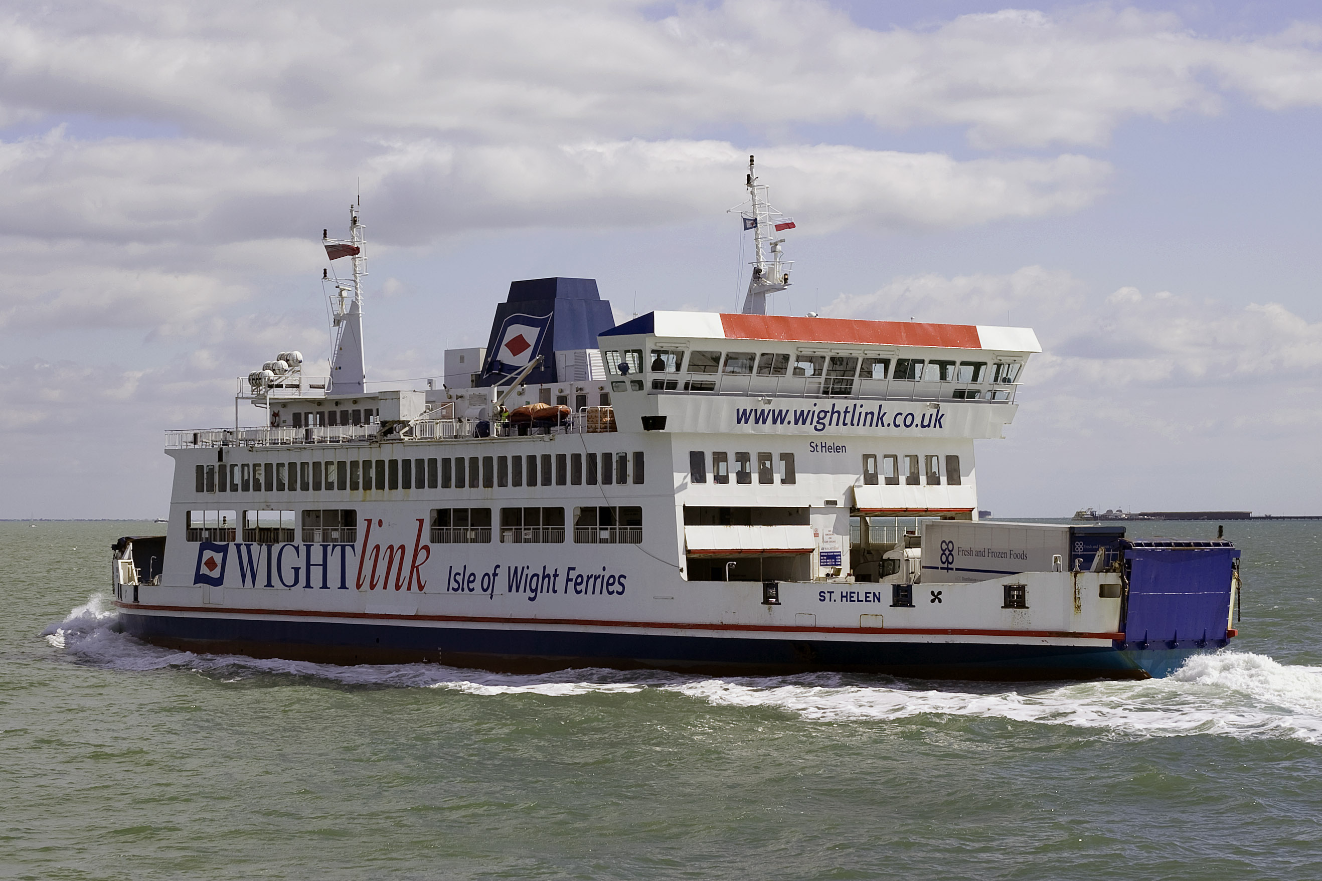 Wightlink car ferry St Helen in the Solent having just departed from Fishbourne terminal on the Isle of Wight. IMO Number: 8120569 MMSI Number: 235031619 Callsign: GDBB Length: 77 m Beam: 17 m